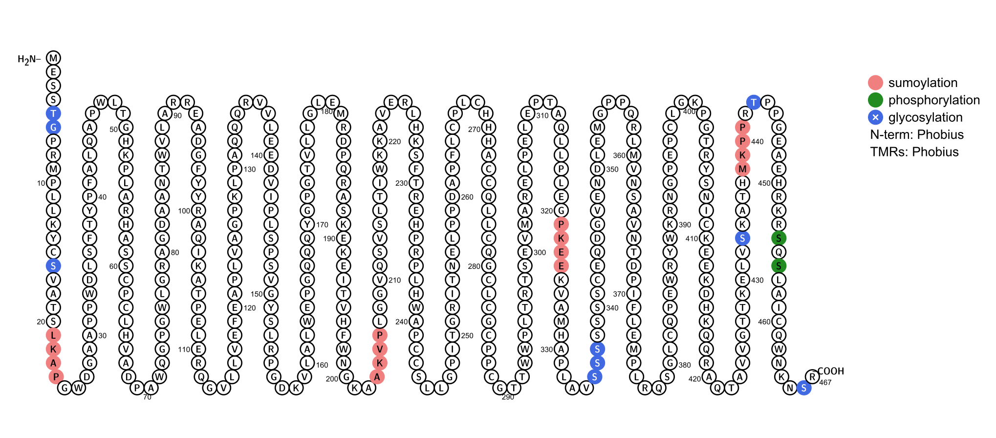 C11orf16 Post translational modifacation